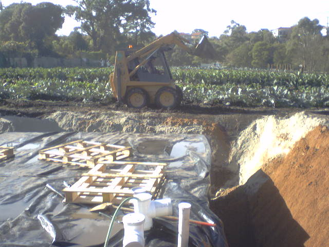 Construction of an underground tank at Harding St Market Gardens, Coburg, Victoria, Australia. The matrix-and-liner tank is 100 kL in size and collects rainwater from nearby townhouses to water the market garden.